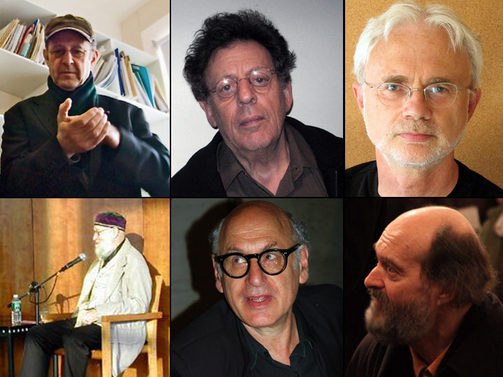 The collage is the result of the fusion of six files found on commons : File:Steve Reich2.jpg Category:Steve Reich File:Philip Glass 1 crop.jpg Category:Philip Glass File:JA-portrait-1-LW.jpg Category:John Coolidge Adams File:Terry Riley Interview at Lincoln Center.jpg Category:Terry Riley File:Michael Nyman Colour.jpg Category:Michael Nyman File:Arvo Pärt.jpg Category:Arvo Pärt